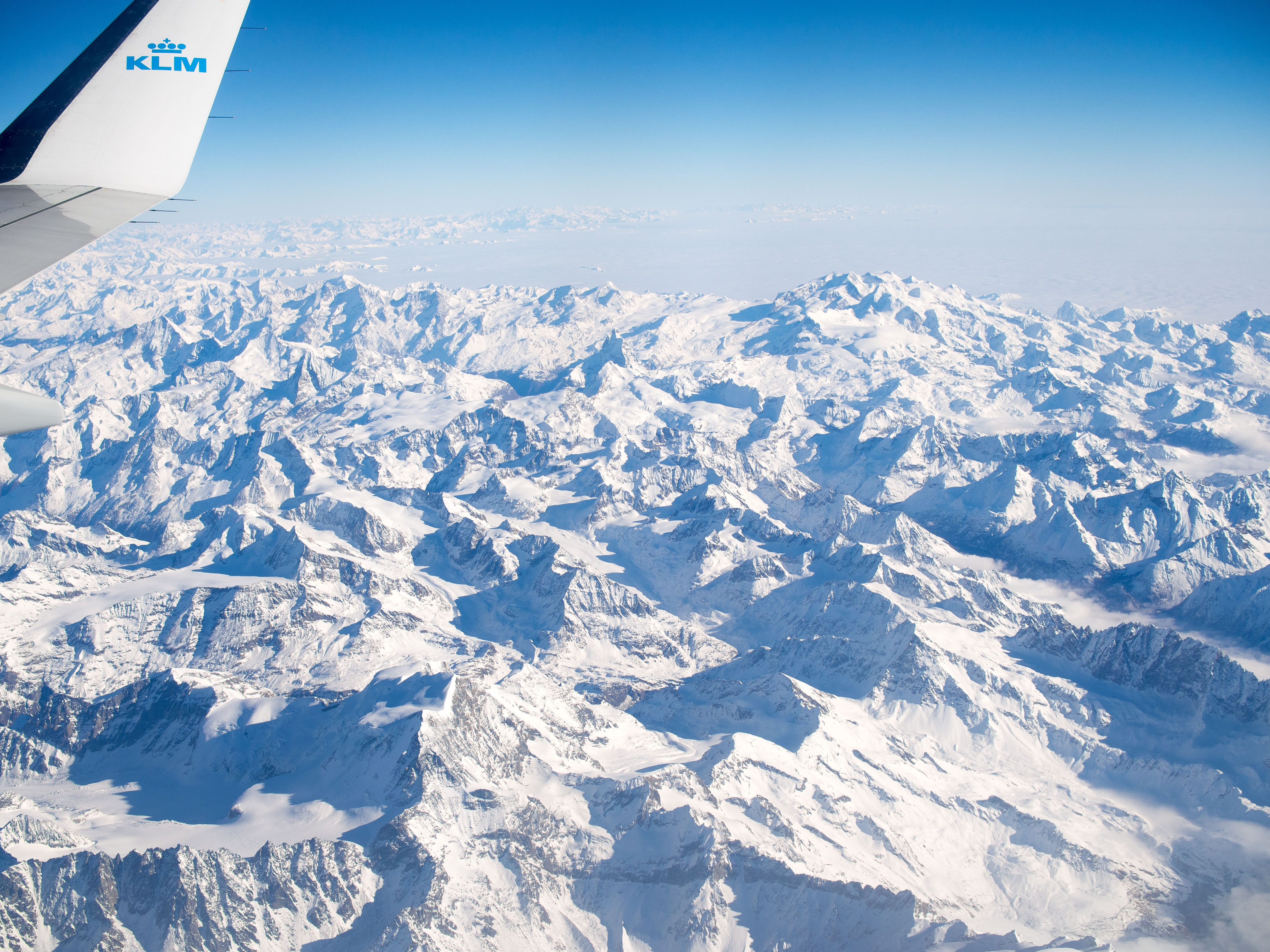 A view of the part of the Pennine Alps containing the Monte Rosa and the Matterhorn. The plane itself is located roughly above the Mont Blanc. Time on the camera was set to Bangkok time: local time of image was 12:12:50.